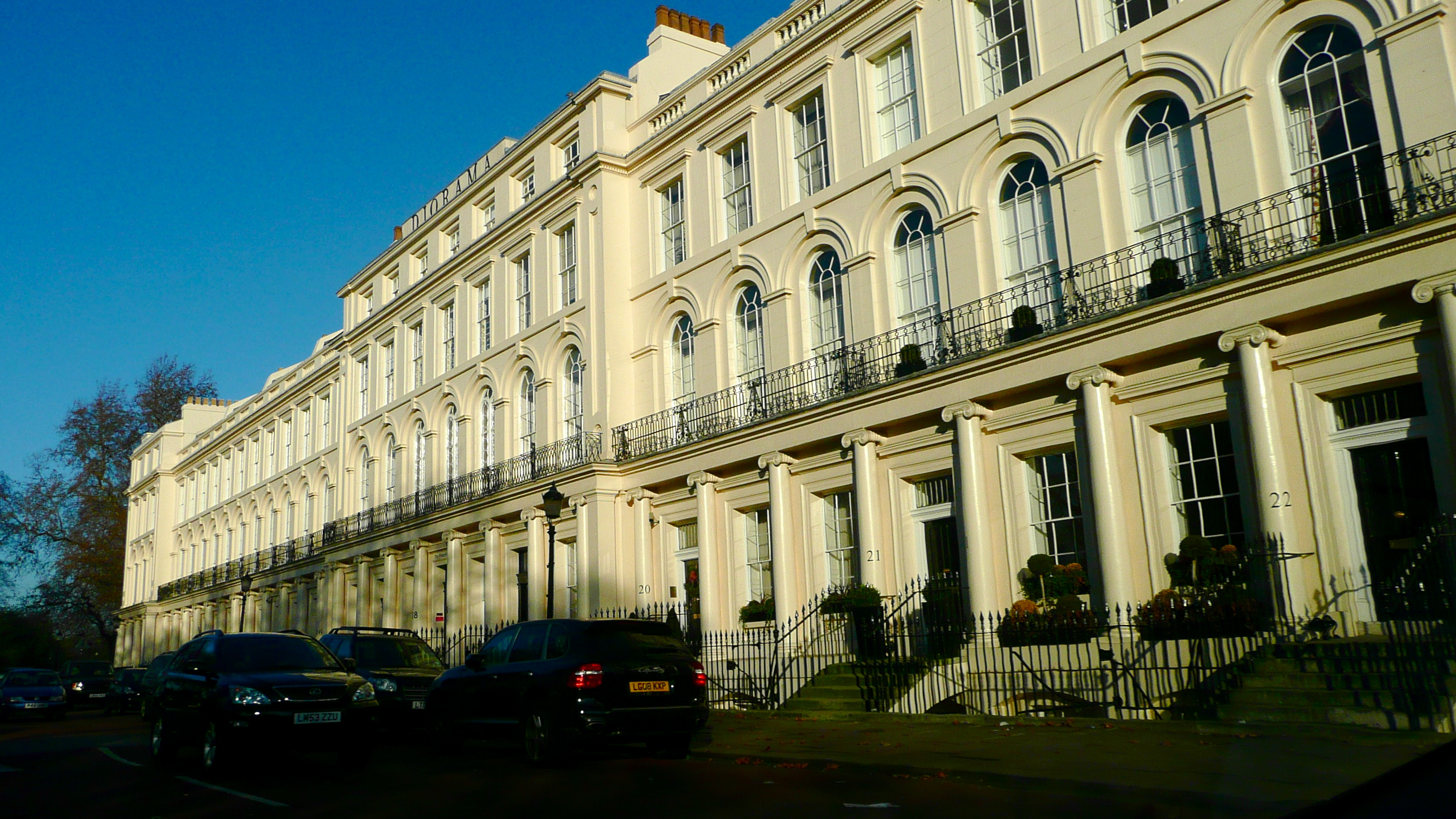 Park Square East Terrace